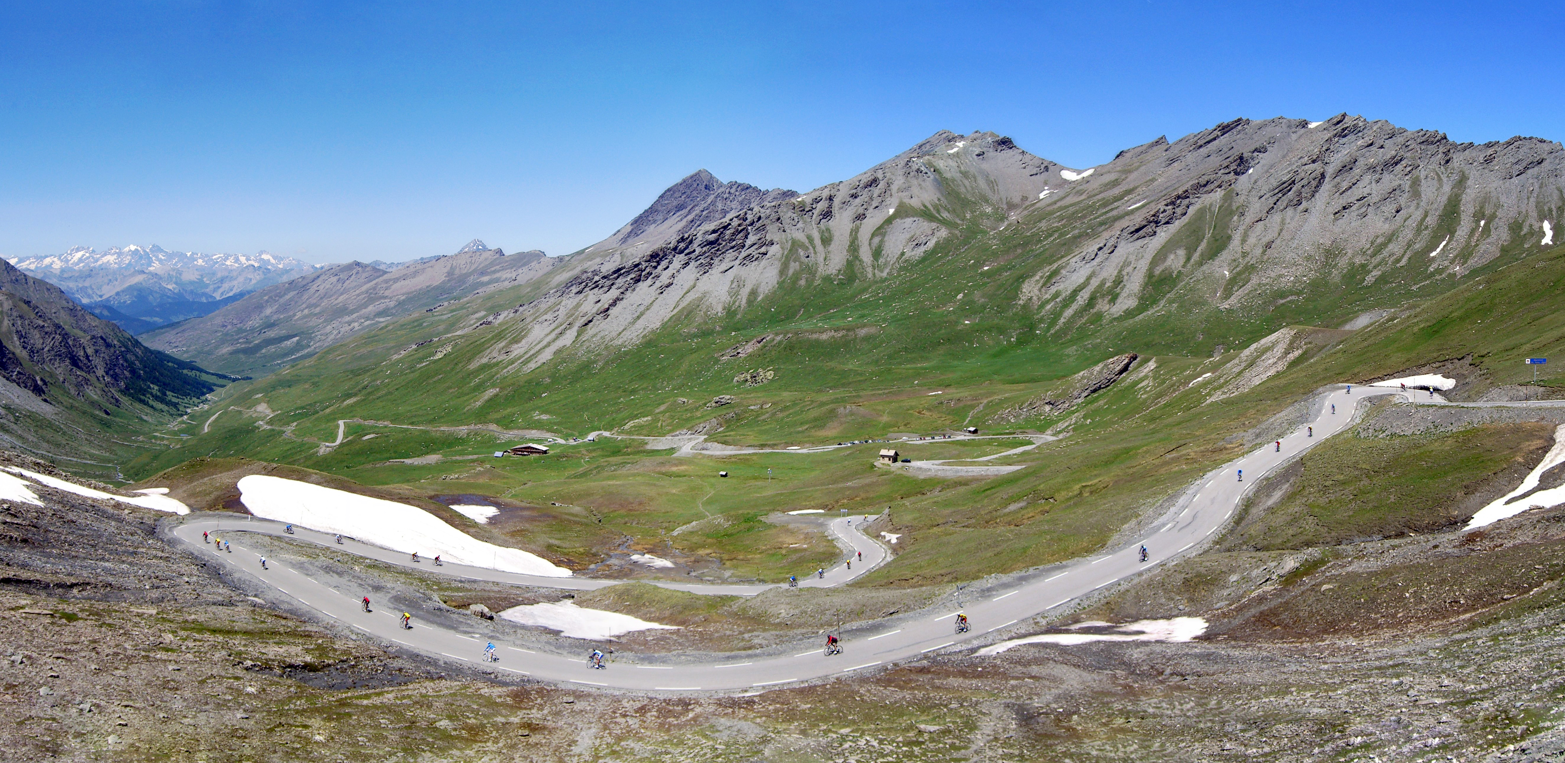 the cycling clones riding down the french side of col agnel... featured in